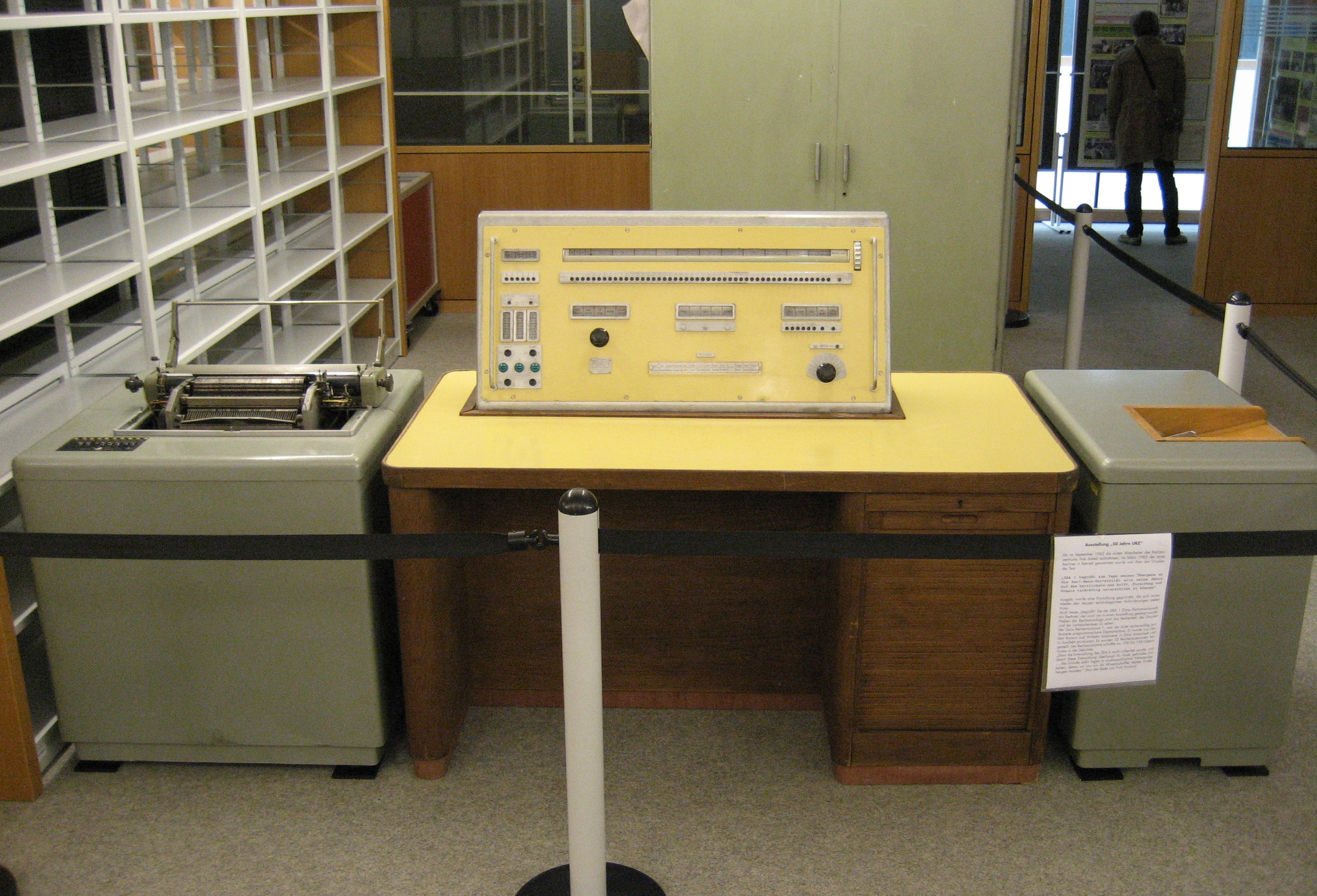 Overall view of the ZRA 1 (from left to right): printer, operating panel, punchcard input